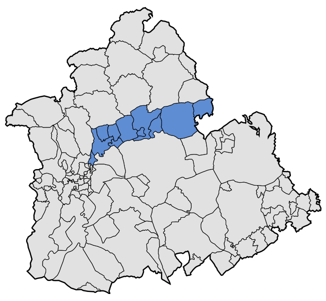 Map of Vega del Guadalquivir, region of province of Sevilla, Spain